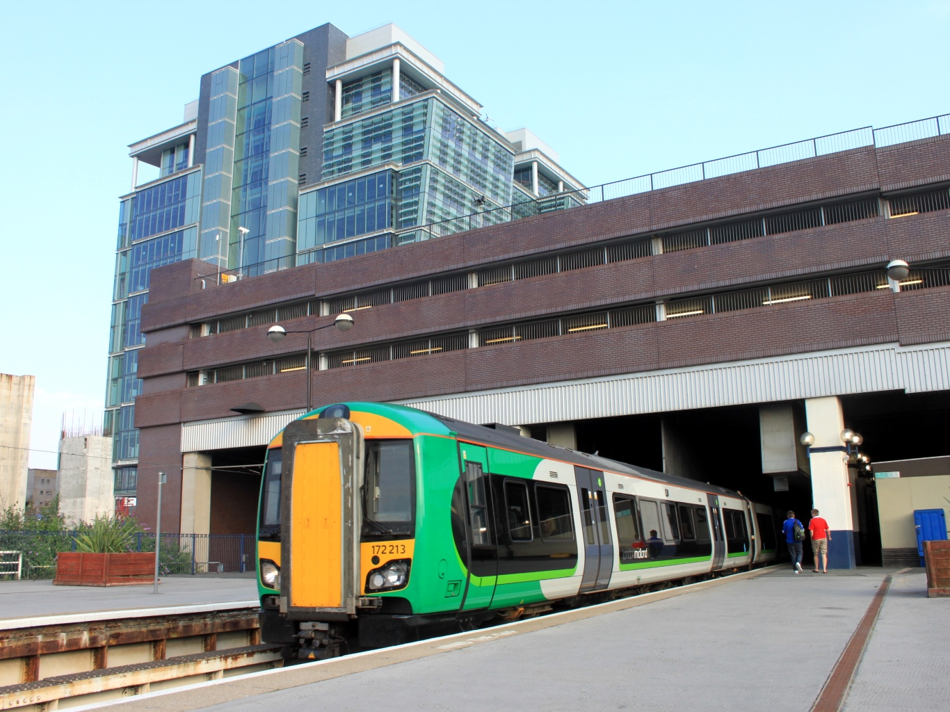 London Midland DMU 172213 emerges into the daylight at Snow Hill station in Birmingham.